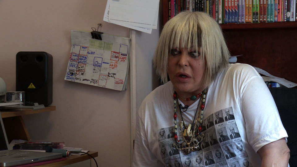 English artist and musician Genesis P-Orridge. Still image from the 2010 documentary "The Future of Art" by Erik Niedling and Ingo Niermann.